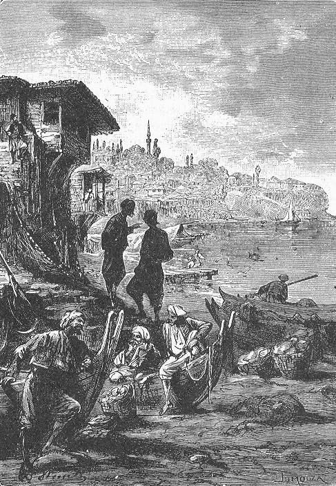 An ilustration from "Kéraban the Inflexible" by Jules Verne paited by Léon Benett.